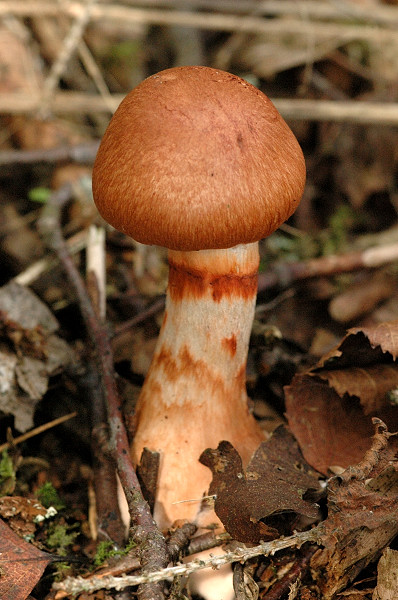 Cortinarius allutus from Commanster, Belgium. If you think this is a different taxon, please contact James Lindsey.